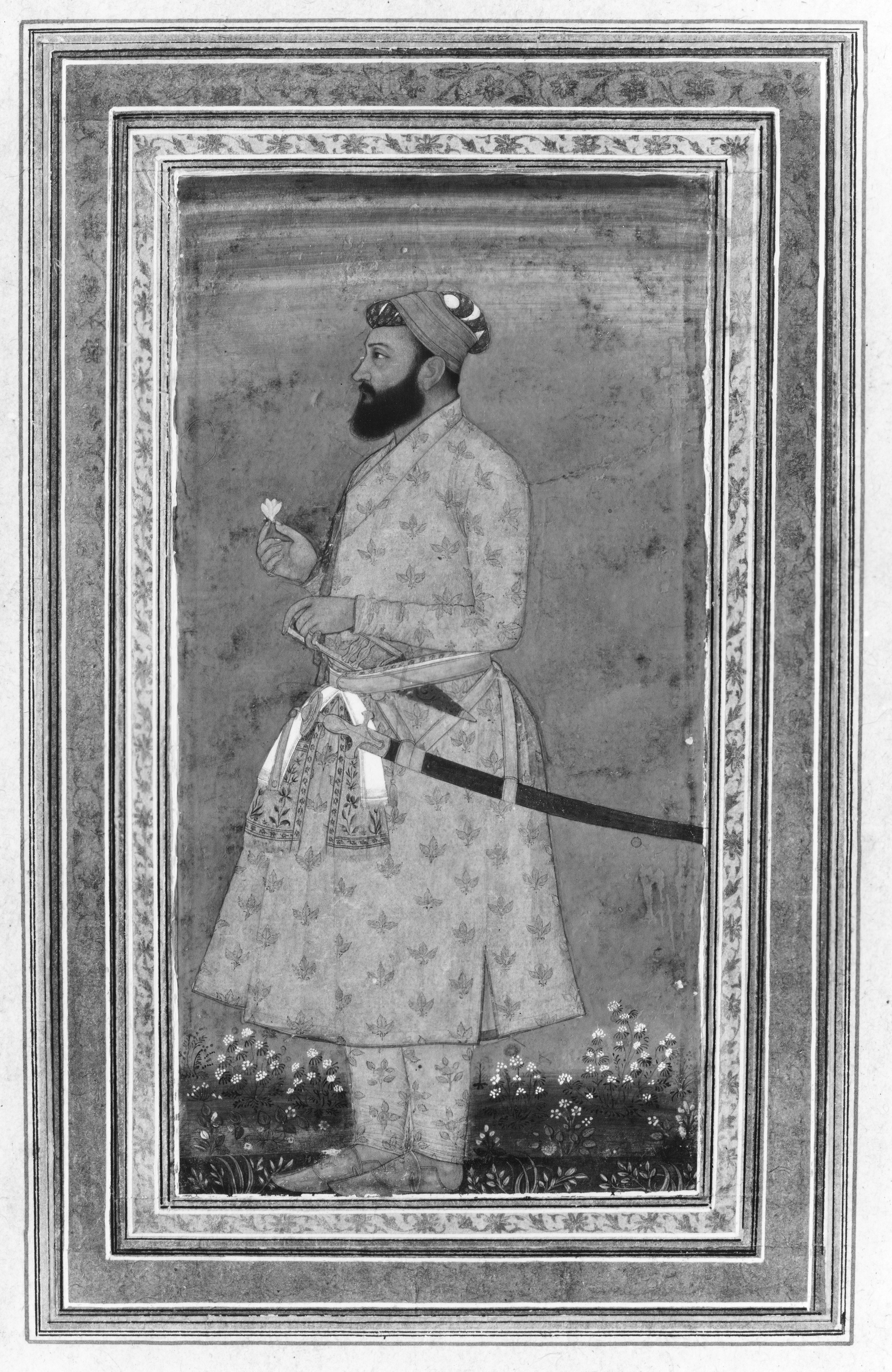 Muhammad Saleh Kamboh Lahori was a noted calligraphist and official biographer of Emperor Shah Jahan and the teacher of Mughal Emperor Aurangzeb. Though a widely read person, little is known of the life of Muhammad Saleh Kamboh other than the works he composed. He was son of Mir Abdu-lla, Mushkin Kalam, whose title shows him to also have been a fine writer. He is believed to be younger brother of Inayat-Allah Kamboh and worked as a Shahi Dewan (Minister) with the governor of Lahore. He died in 1675.